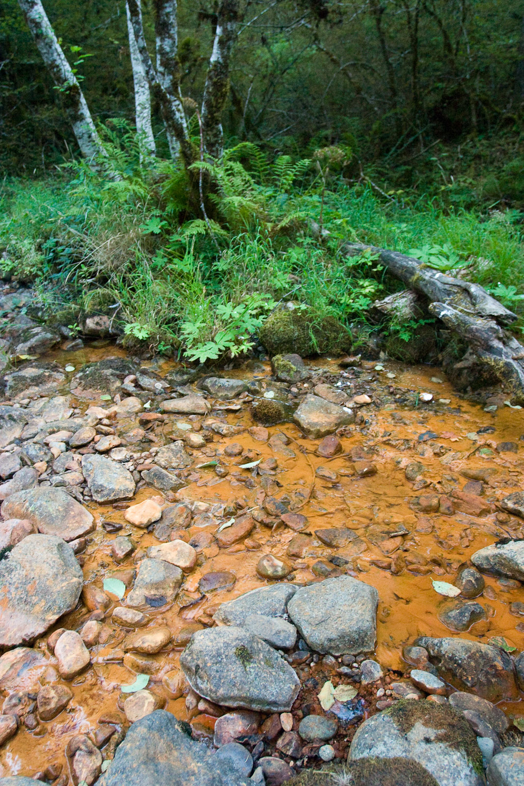 Iron Mike Mineral Springs